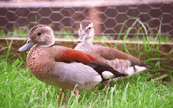 Callonetta leucophrys taken by John Beniston (Image is also available elsewhere on internet through creative commons license)